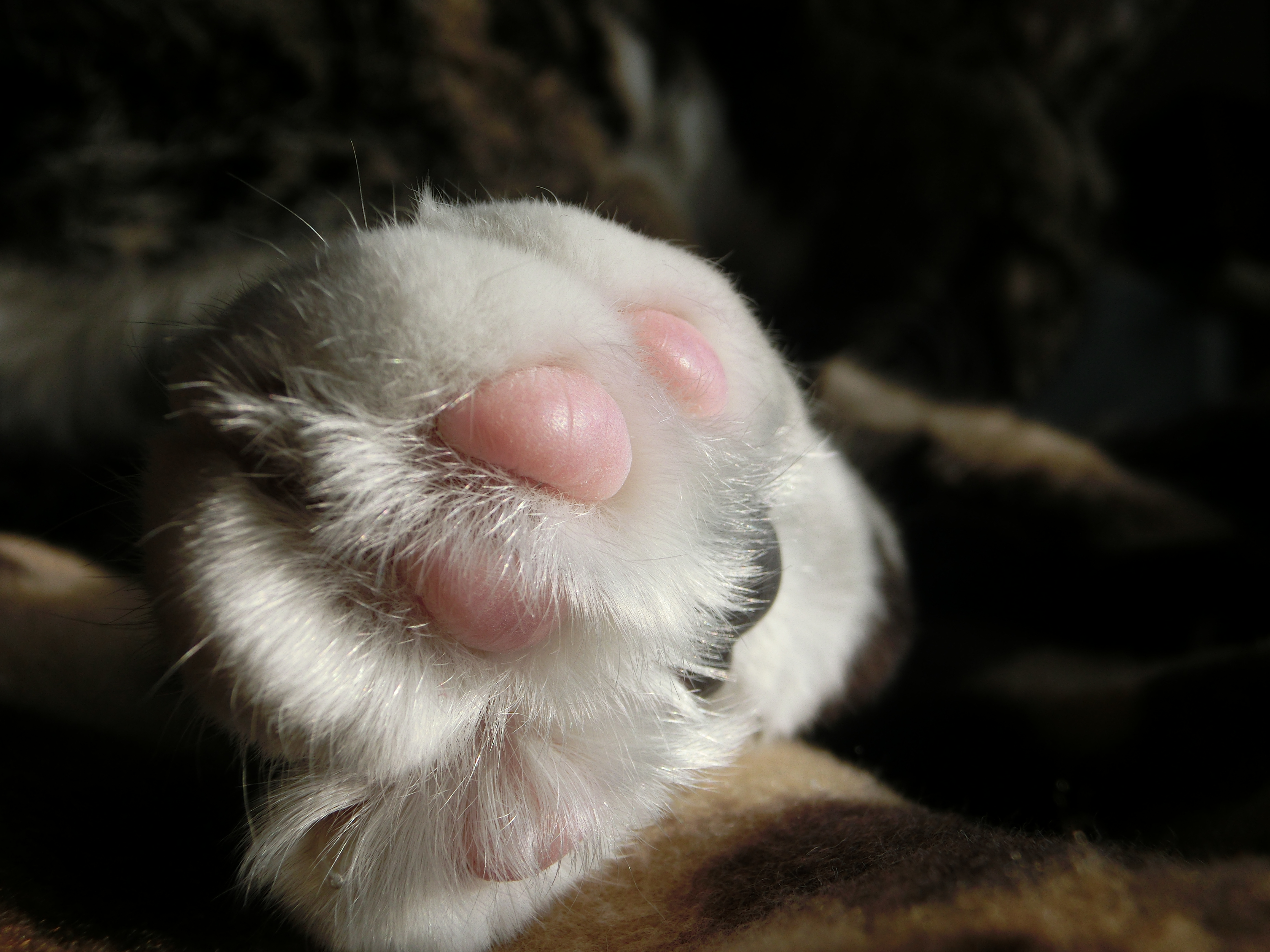 A tabby cat's back paw, viewed from underneath the toes.